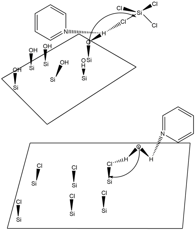 Proposed Mechanism of Lewis base catalysis of SiO2 ALD during a) an SiCl4 reaction and b) an H2O reaction